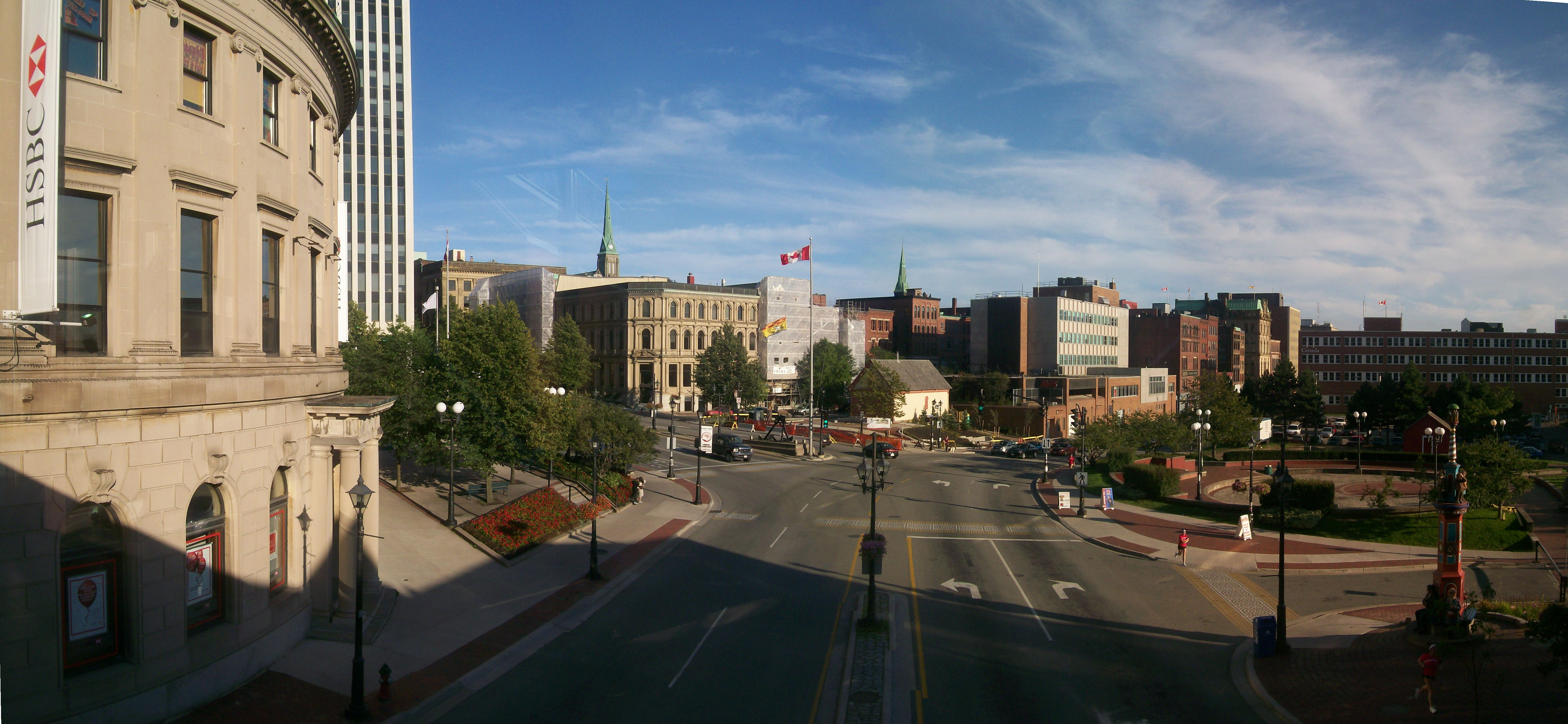 St. John New Brunswick Town Square